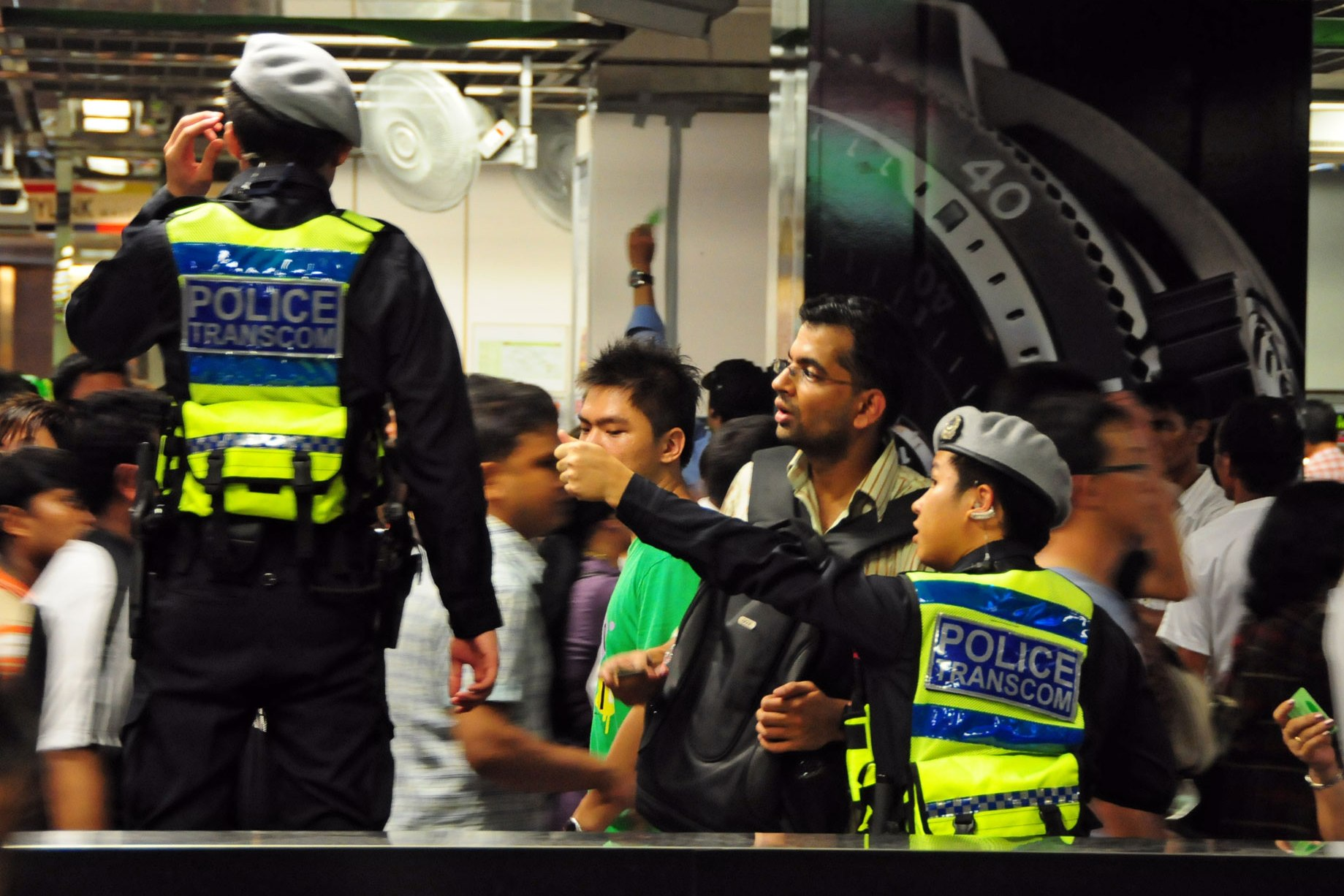 Singapore Police Force officers from the Public Transport Security Command surveys and assists the public during high traffic volume in the immediate hours after the 2010 new year celebrations at City Hall MRT Station. Officers don their new beret which was introduced on 30 December 2009.